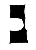 Hebrew letter nun, 15th-century Ashkenazi book-hand (reference e.g. Ada Yardeni, Book of Hebrew Script)